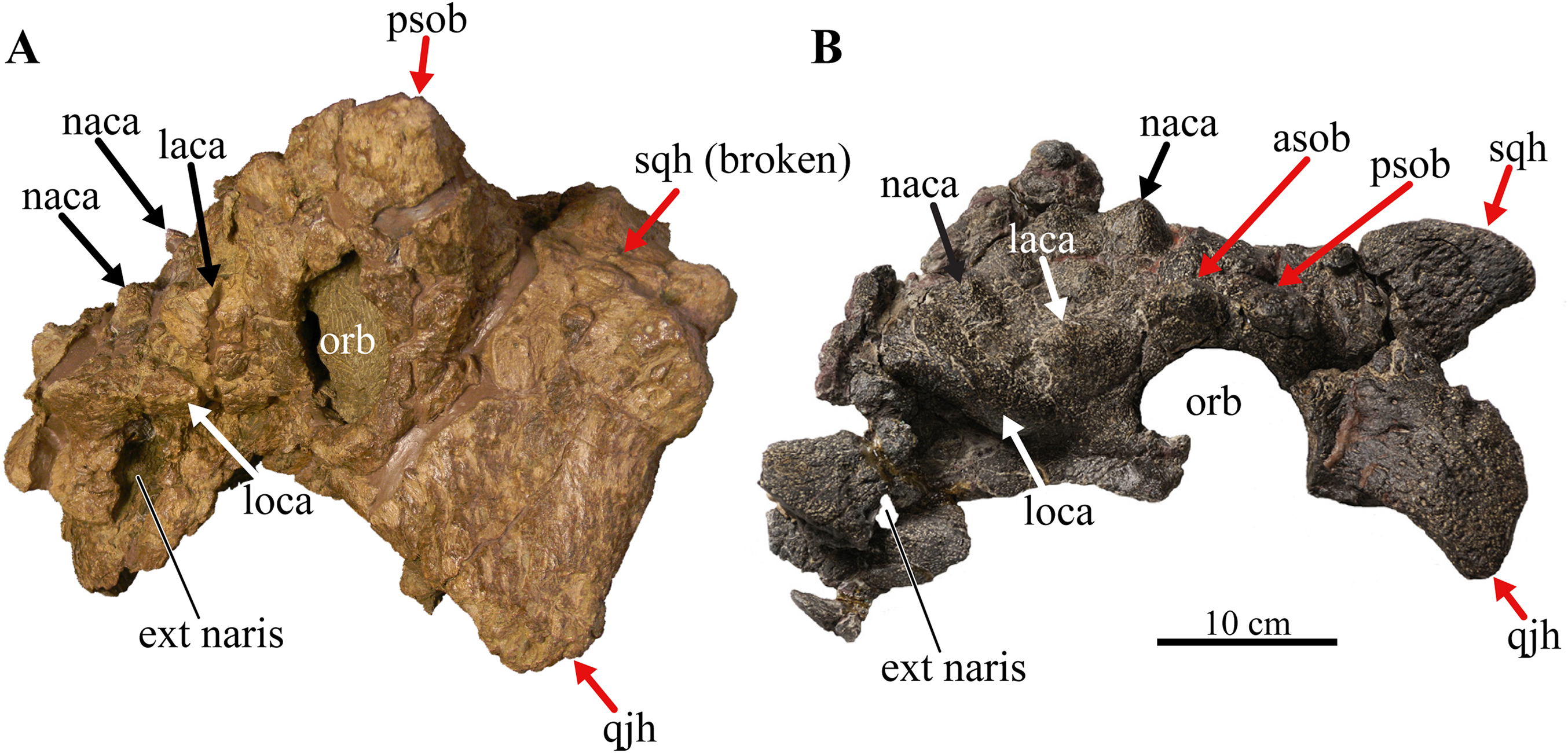 Comparison of cranial features between closely related southern Laramidian taxa; (A), Akainacephalus johnsoni (UMNH VP 20202) from the Late Cretaceous Kaiparowits Formation of Utah; and (B), Nodocephalosaurus kirtlandensis (SMP VP-900) from the Late Cretaceous Kirtland Formation of New Mexico, in left lateral views. Various synapomorphies are shared with N. kirtlandensis (highlighted in black and white arrows) and includes “flaring nostrils”; enlarged, laterally projecting, loreal osteoderms that are situated directly dorsal to the external nares. Other synapomorphies include pyramid-shaped nasal and frontal osteoderms positioned on the dorsal regions of the skull. A number of significant differences have been observed between both specimens; in A. johnsoni, the anterior, and posterior supraorbital bosses form an enlarged element that is somewhat backswept, whereas in N. kirtlandensis, the posterior and anterior supraorbital bosses are clearly defined as individual osteoderms, and are much smaller in size. Additionally, the squamosal horn in Akainacephalus is very small but is prominent and tetrahedrally shaped in Nodocephalosaurus. The quadratojugal horn in Akainacephalus is massive, has a subtriangular morphology in lateral view and projects almost entirely ventral, whereas in Nodocephalosaurus, the quadratojugal horn is smaller and has a typical fin-shaped morphology. Study sites: asob, anterior supraorbital boss; ext naris, external naris; laca, lacrimal caputegulum; loca, loreal caputegulum; naca, nasal caputegulae; orb, orbit; psob, posterior supraorbital boss; qjh, quadratojugal horn; sqh, squamosal horn.